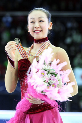 Mao Asada (1st) duing the medal ceremony at the 2008 World Championships.